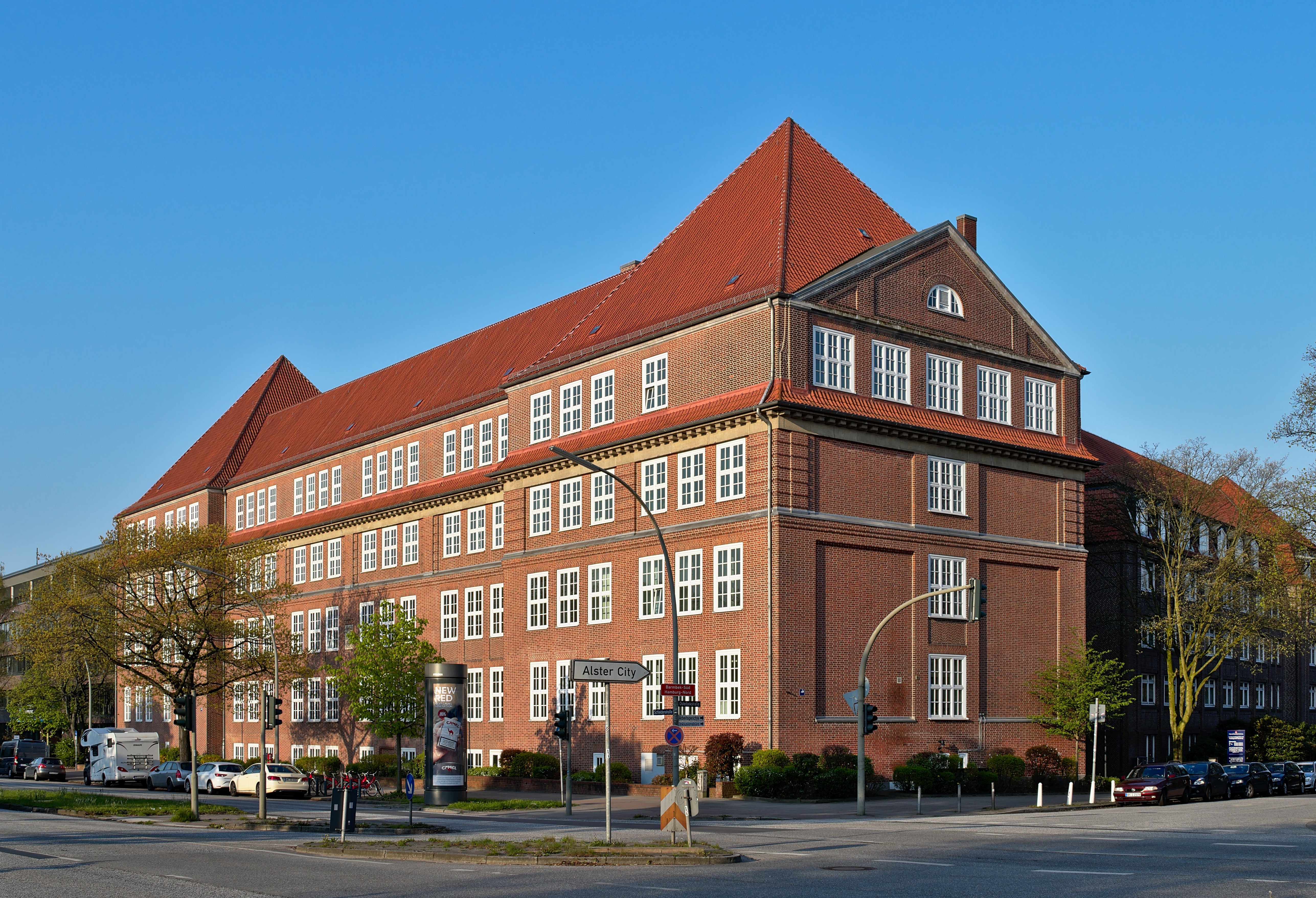 Building of the labour court and state labour court of the Free and Hanseatic City of Hamburg. The building in the foreground is a former school which has been the seat of the labour court and the state labour court since the 1980s. It was extended with a new building, visible on the very right of the picture in the background. The entrance is situated in the space between the two parts. The old building is under cultural heritage protection.